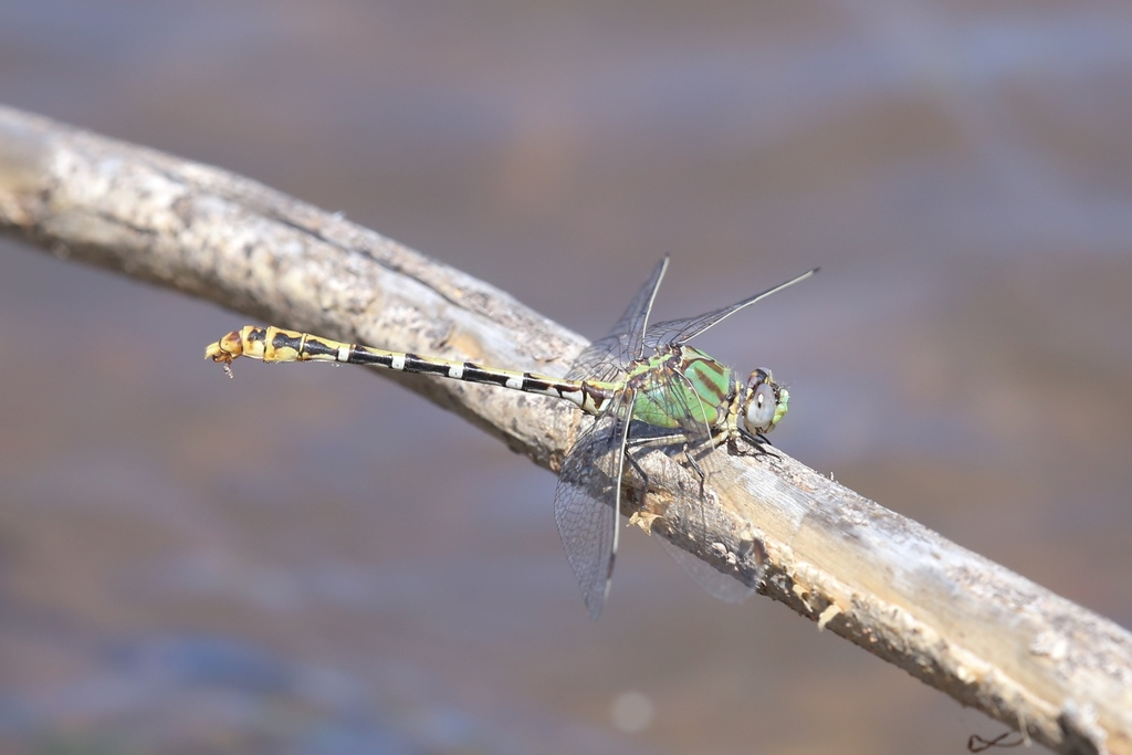 Dashed Ringtail (Erpetogomphus heterodon), Gila National Monument